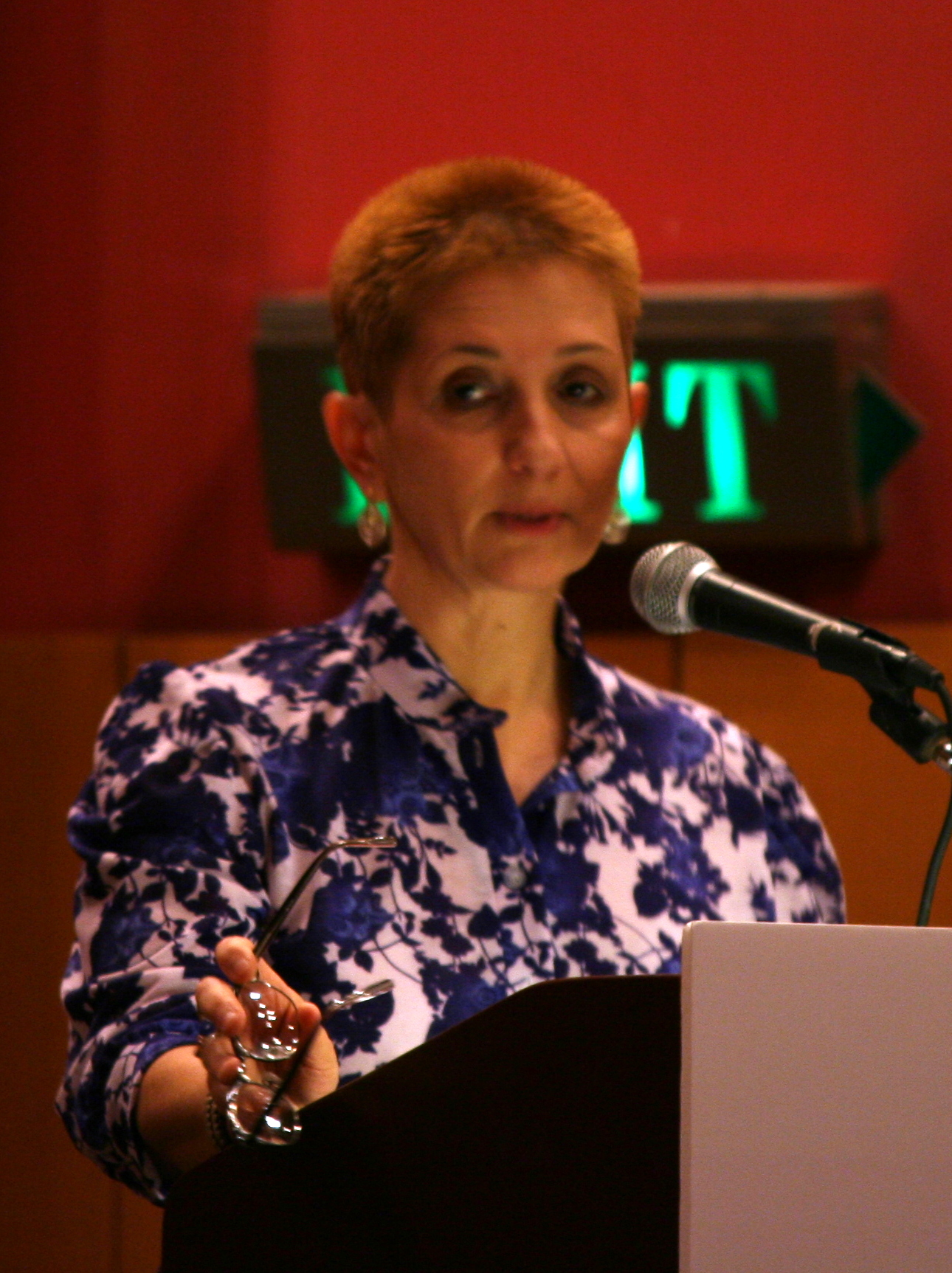 Inbal Rubinstein, Israeli lawyer